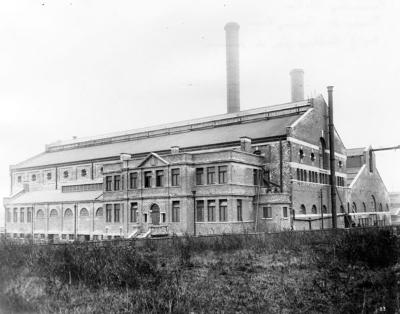 The generating station at Tucker Street in Canning Town, West Ham, seen from the Thames in 1904. (West Ham Power Station)